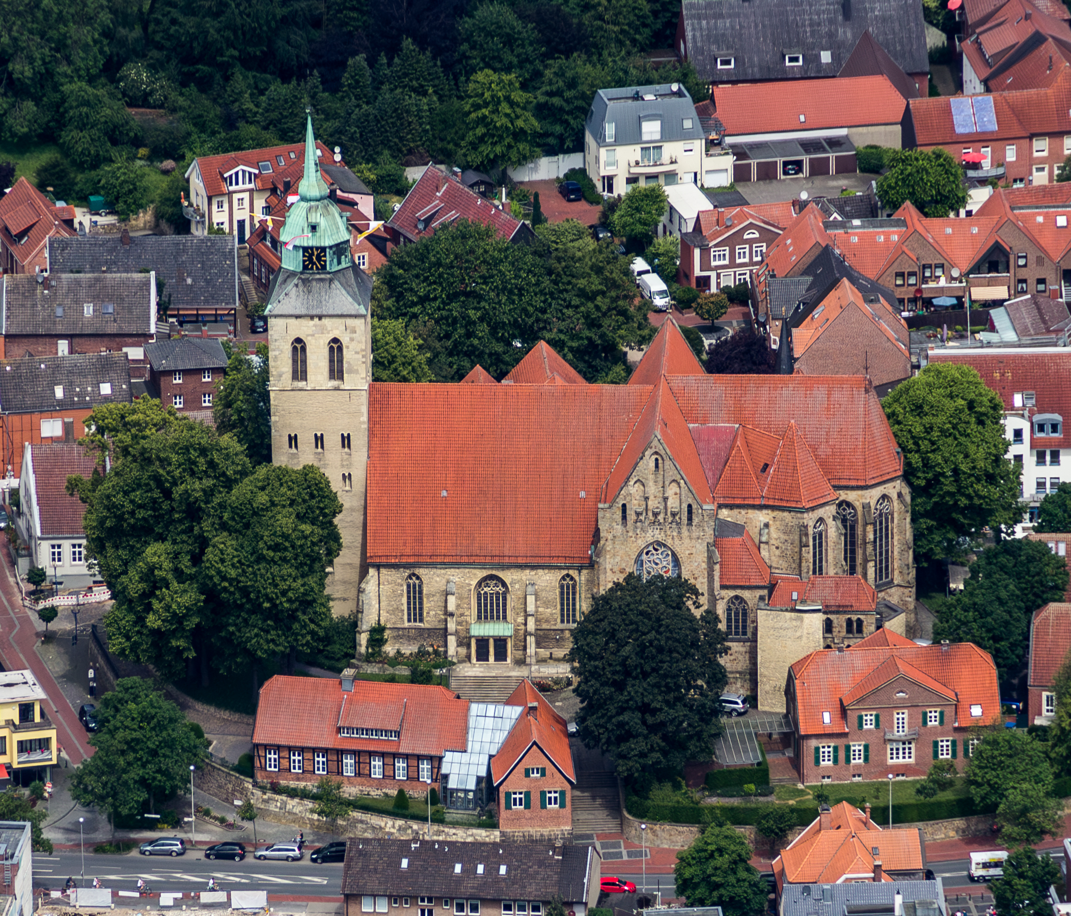 St. Martinus Church, Greven, North Rhine-Westphalia, Germany